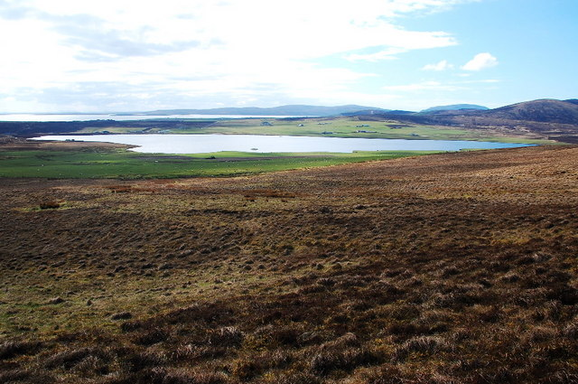 The Loch of Kirbister Looking roughly SW over moorland down to the Loch. Scapa Flow, then Hoy beyond.